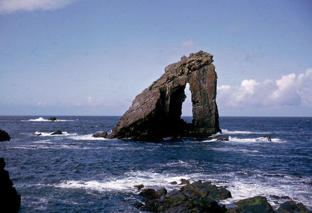 Gaada Stack, Foula, Shetland